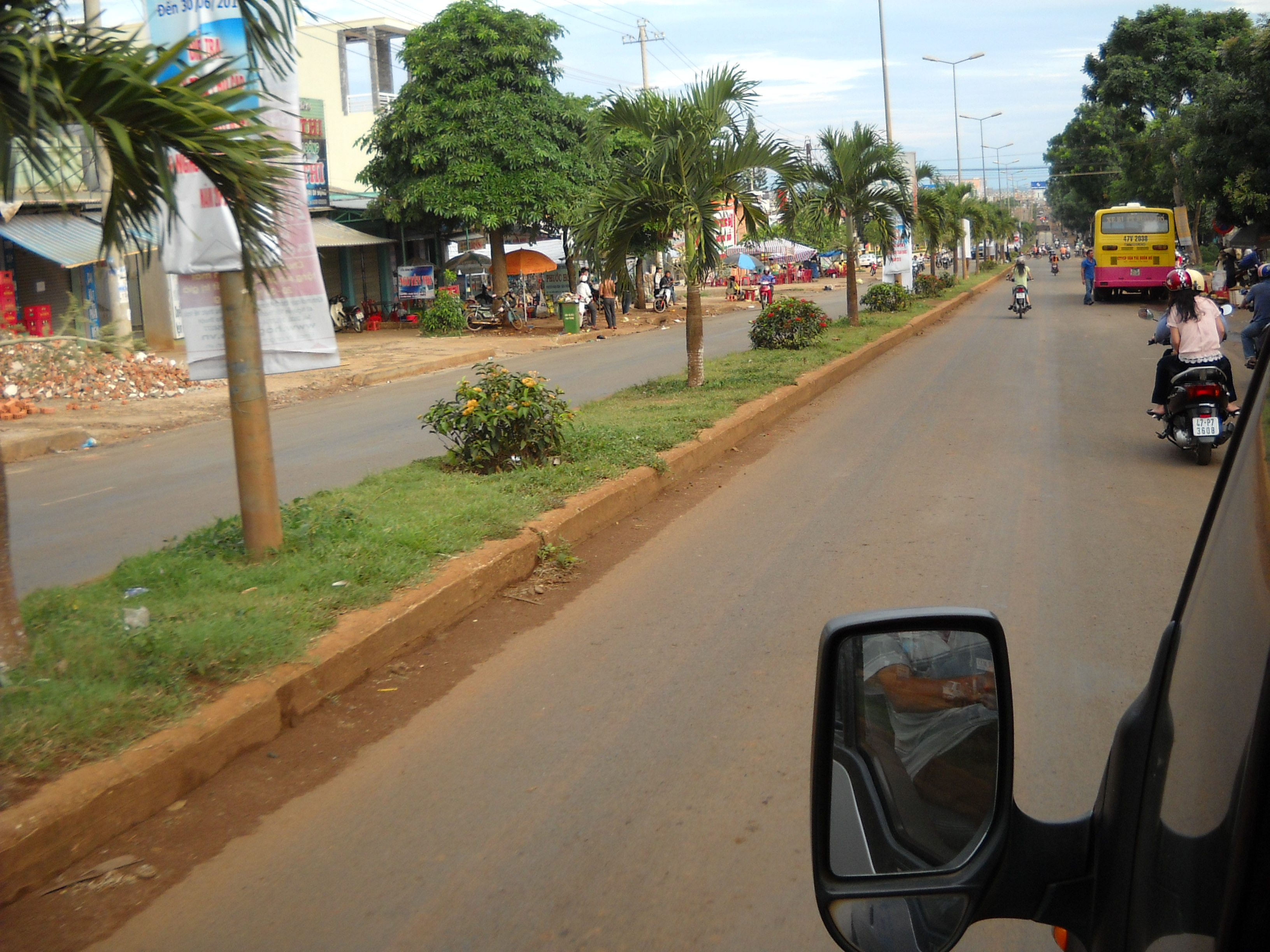 Buôn Hồ Township, Đắk Lắk Province, Việt Nam